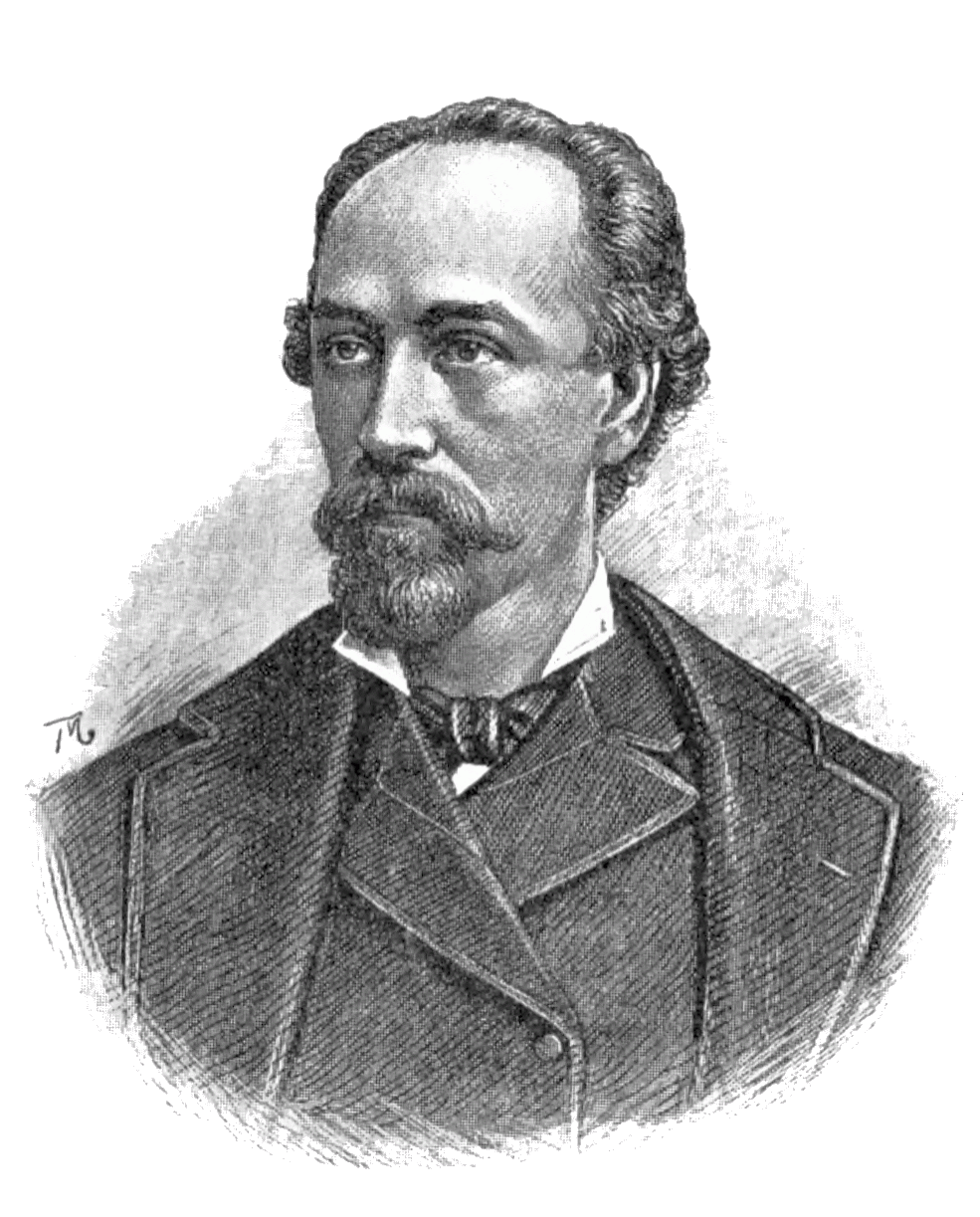 Đuro Arnold (Gjuro Arnold; 1853–1941), Croatian philosopher, pedagogue and writer